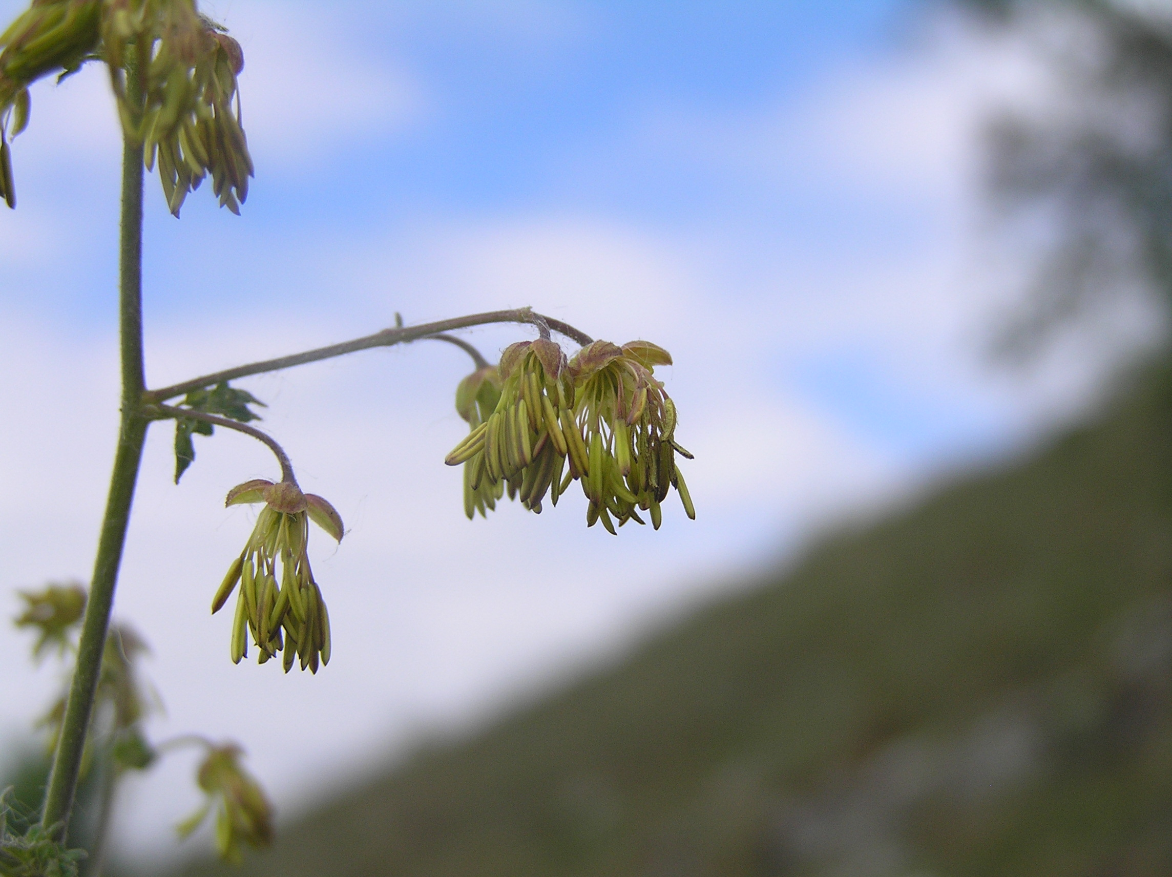 Thalictrum foetidum, Svatý kopeček near Mikulov, Southern Moravia, Czech Republic